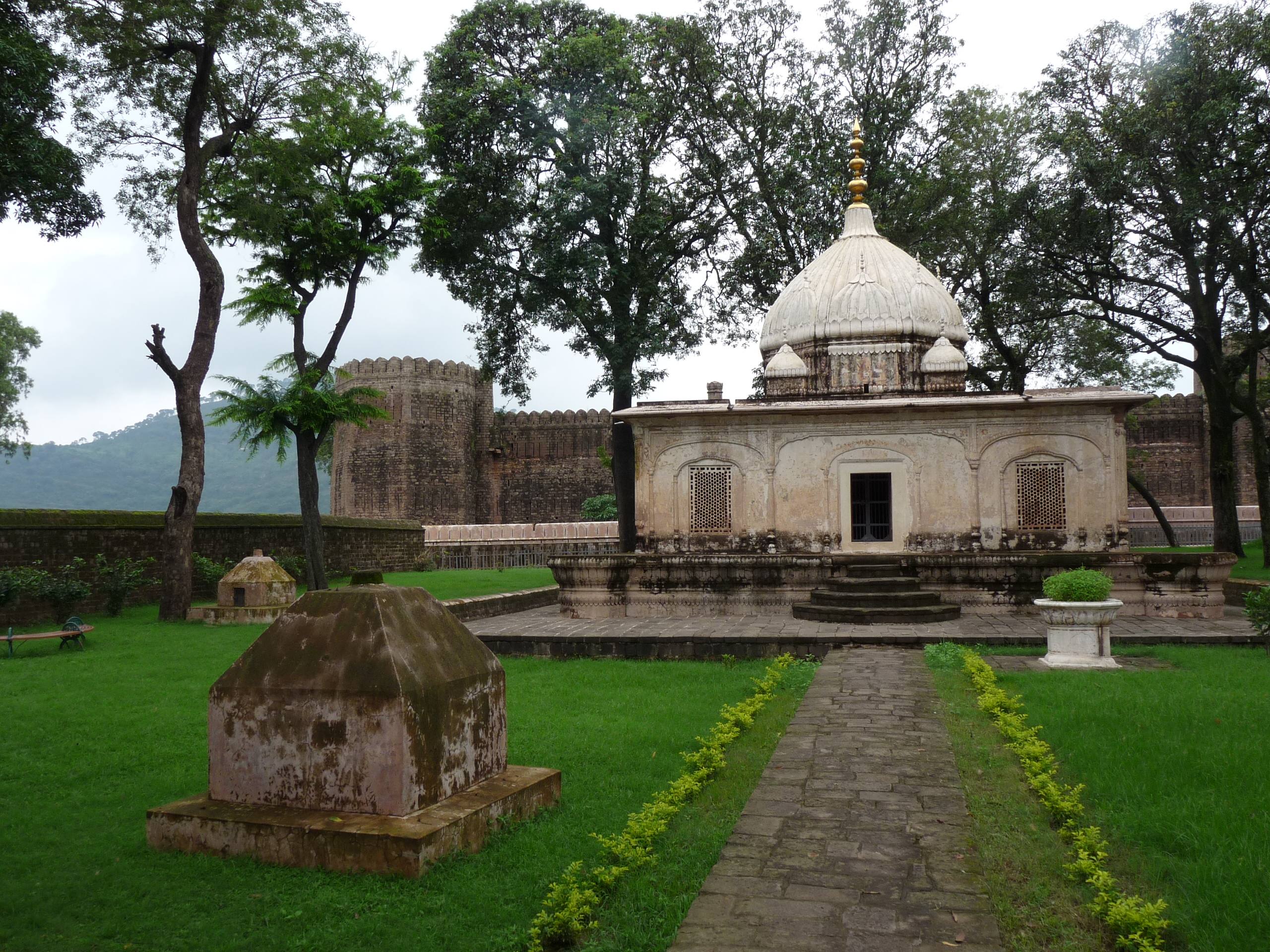 The Rani's mausoleum with the Ramnagar fort behind as viewed from near the bus station in central Ramnagar